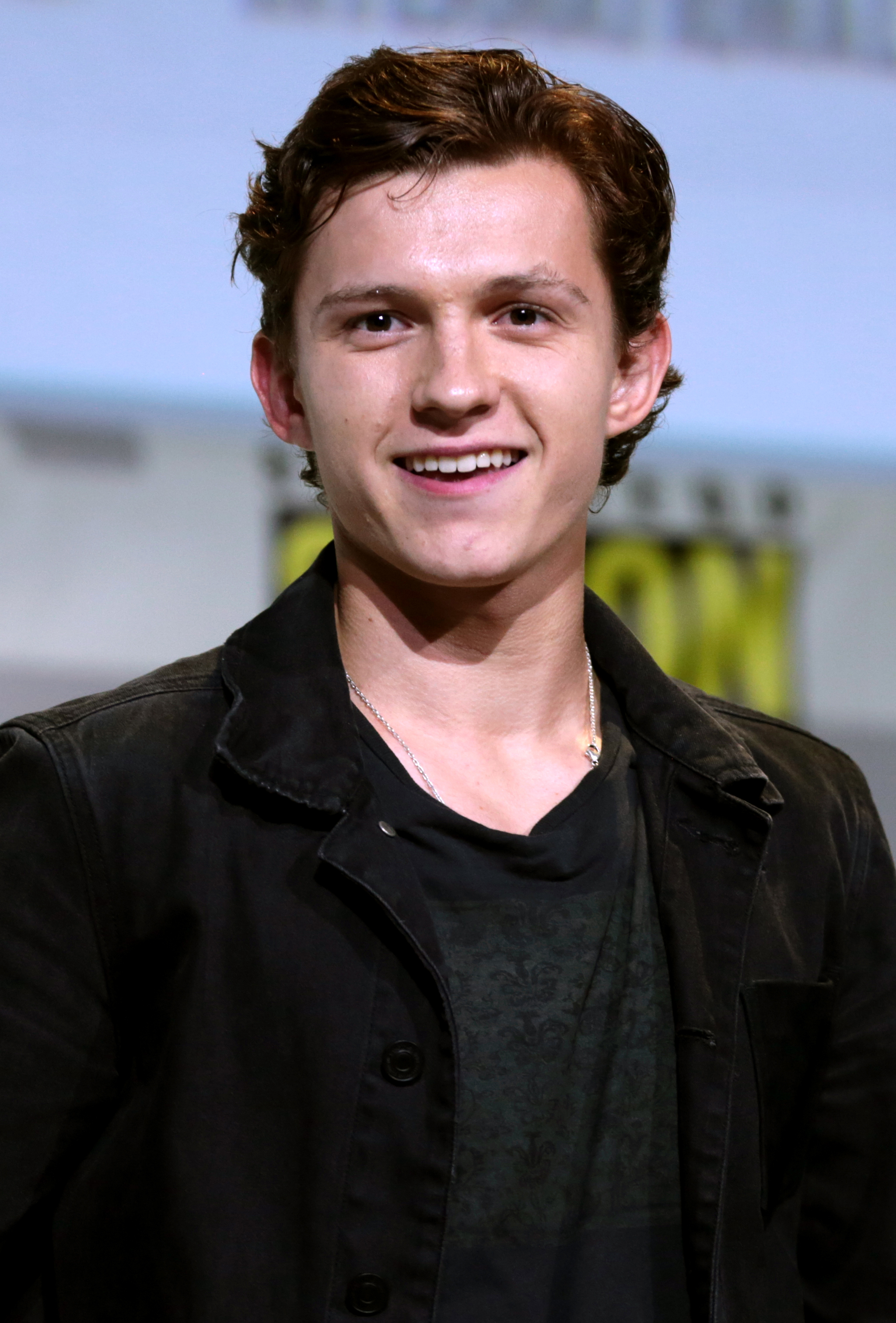 Tom Holland speaking at the 2016 San Diego Comic-Con International in San Diego, California.